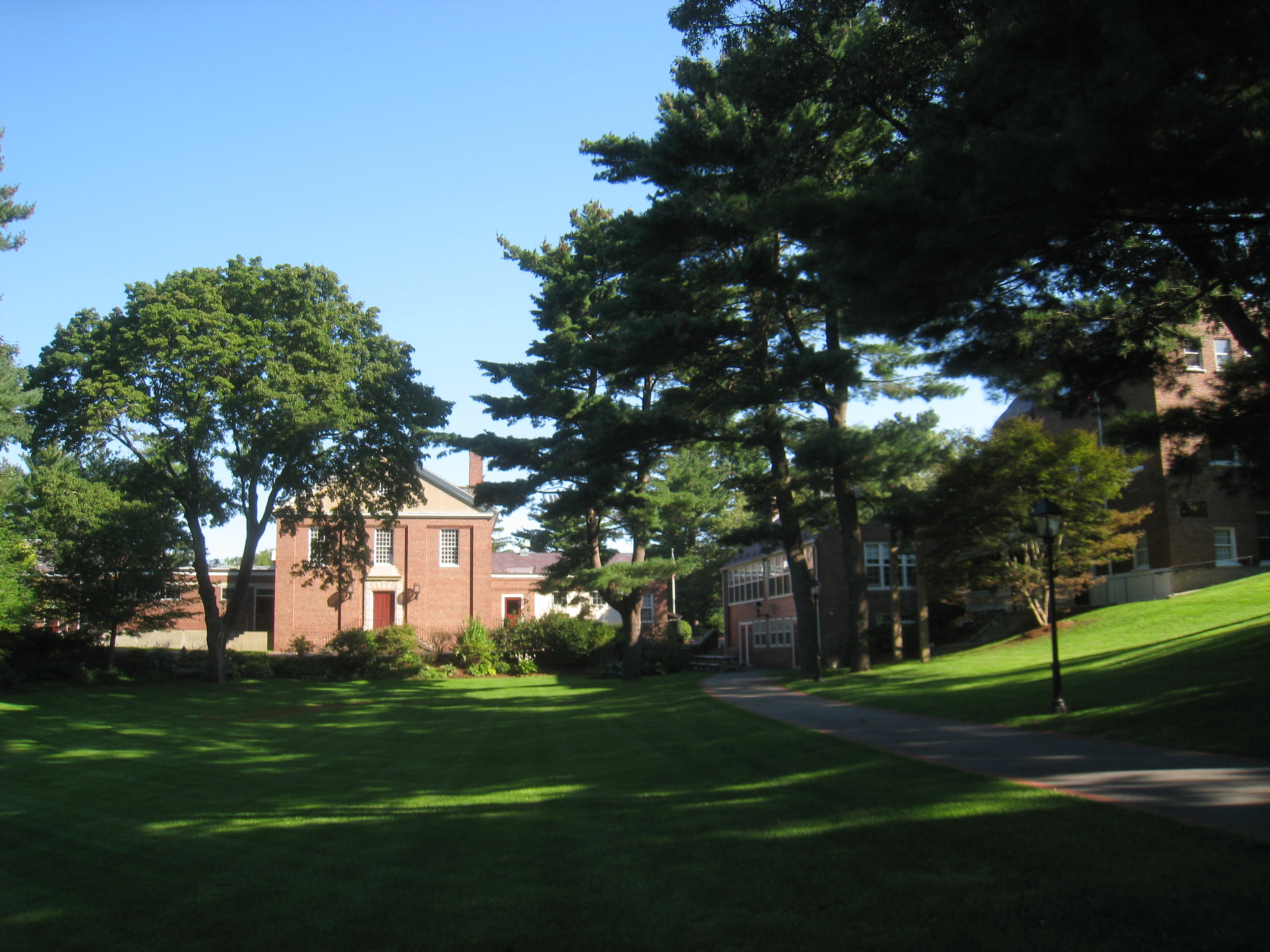 Belmont Hill School, Belmont, Massachusetts, USA.